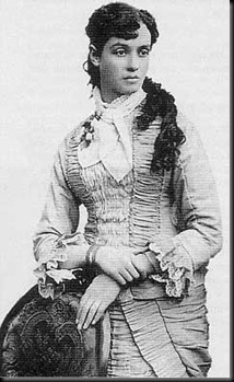 Bolivian writer Adela Zamudio